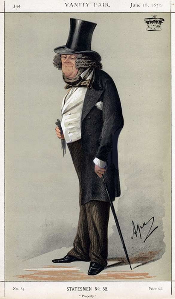 Caricature of William Ward, 1st Earl of Dudley (1817-1885). Caption read "Property".